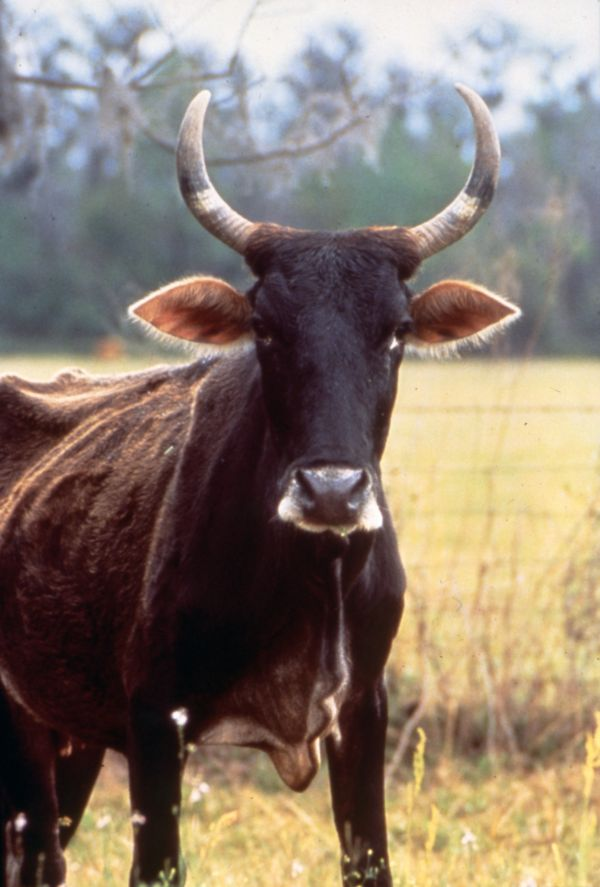 Close-up view of Florida cracker cattle